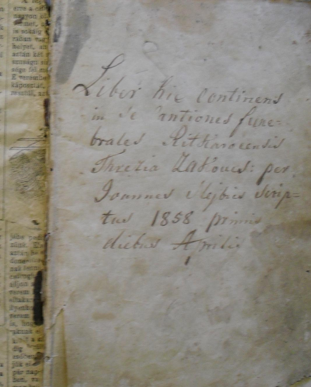 Hymnal in prekmurian language (prekmurščina) from Ritkarócz/Ritkaháza (1858), by Terézia Zakoucs. The title is in Latin.